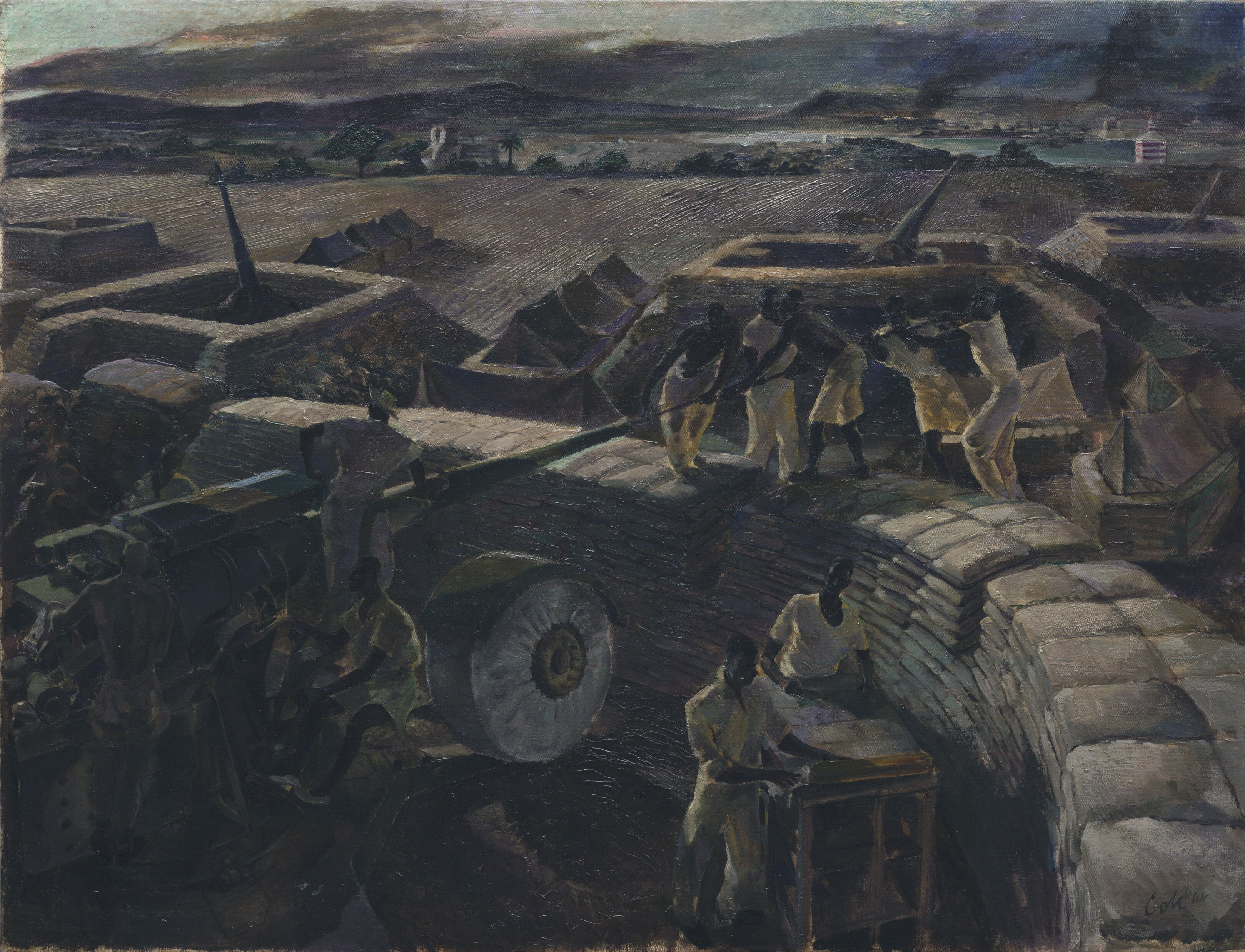 Bechuanaland Boys cleaning Aa Guns in the Twilight after Action, Syracuse, Sicily image: soldiers from Bechuanaland stand on the edge of a gun emplacement, cleaning the barrel of a gun. Behind them are several anti-aircraft guns with rows of tents nearby and mountains in the distance.